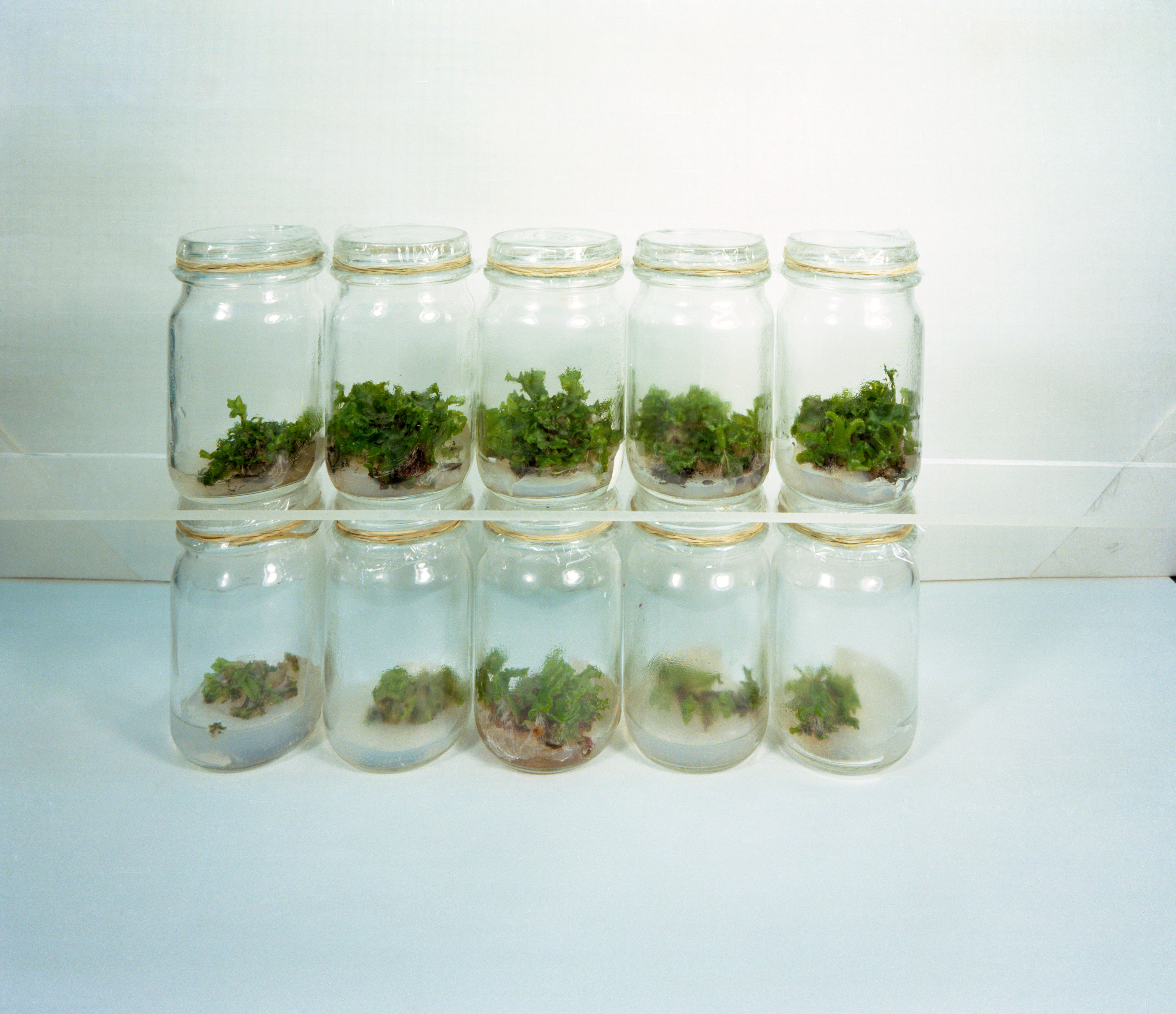 Containers with liverwort plant (Marchantia polymorpha) in Lunar Receiving Laboratory. Seven weeks or some 50 days prior to this photograph 0.22 grams of finely ground lunar material was added to each of the upper samples of cultures. The lower cultures were untreated.